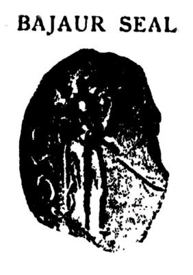 Bajaur seal "Su Theodamasa", 1st century CE, India